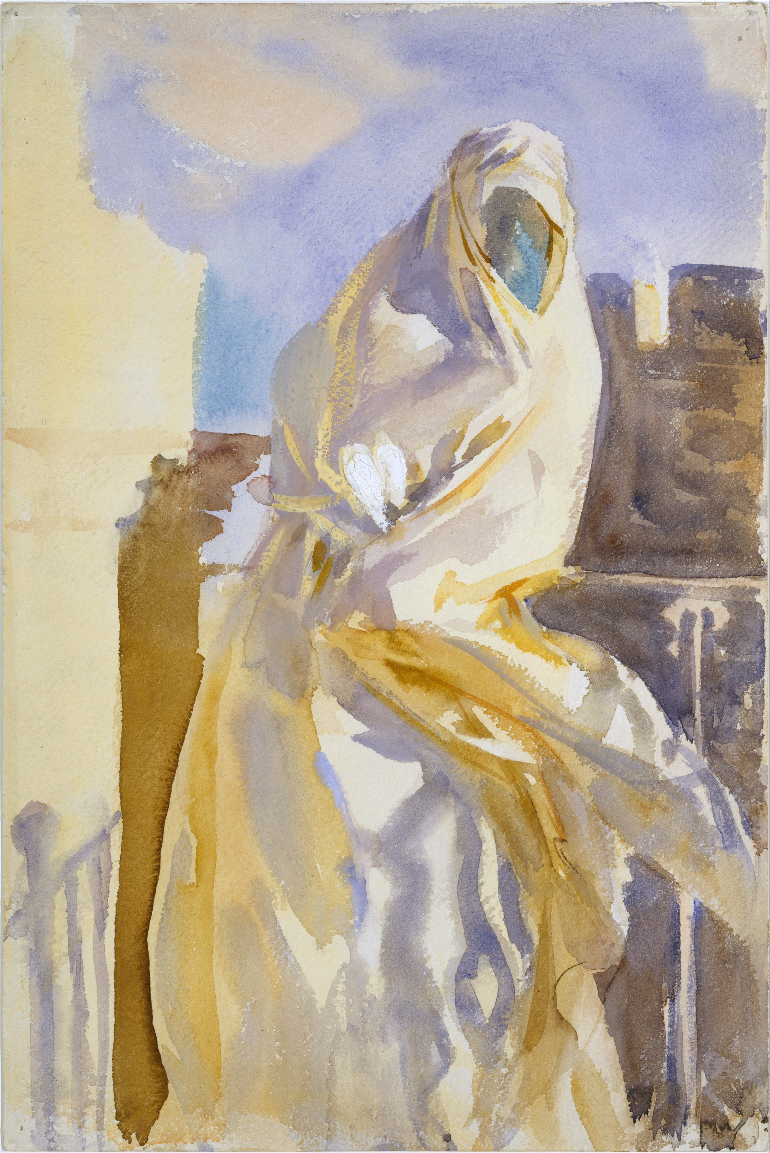 Watercolor; Drawings